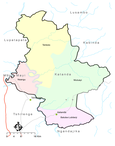 Katanda's neighboring